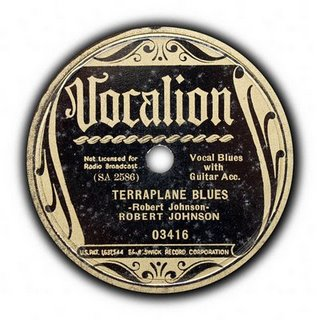 Terryplane Blues by Robert Johnson, Vocalion Records.